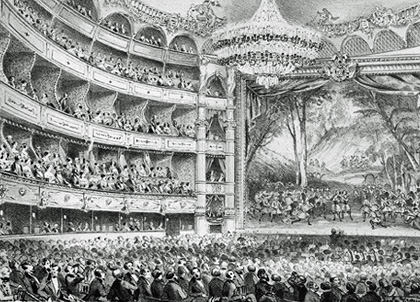 Interior of the Salle Favart